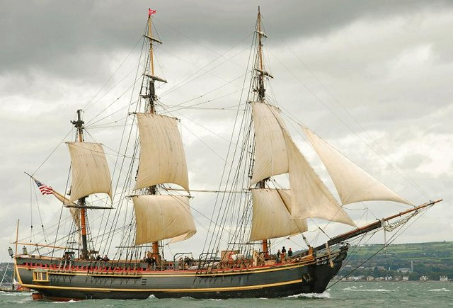 Tall ships, Belfast Lough 2009 (10)